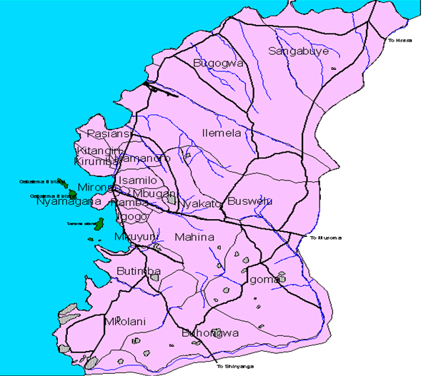 Mwanza city map to show Nyamagana and Ilemela Districts